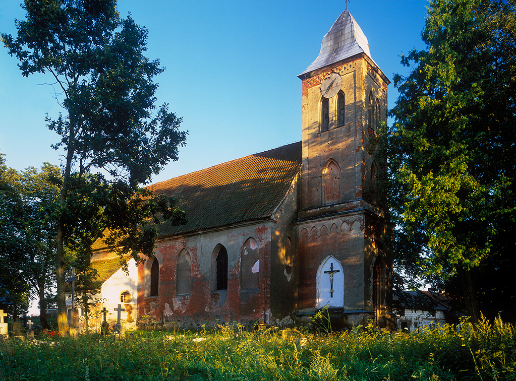 Holy Cross church in Opin, Poland